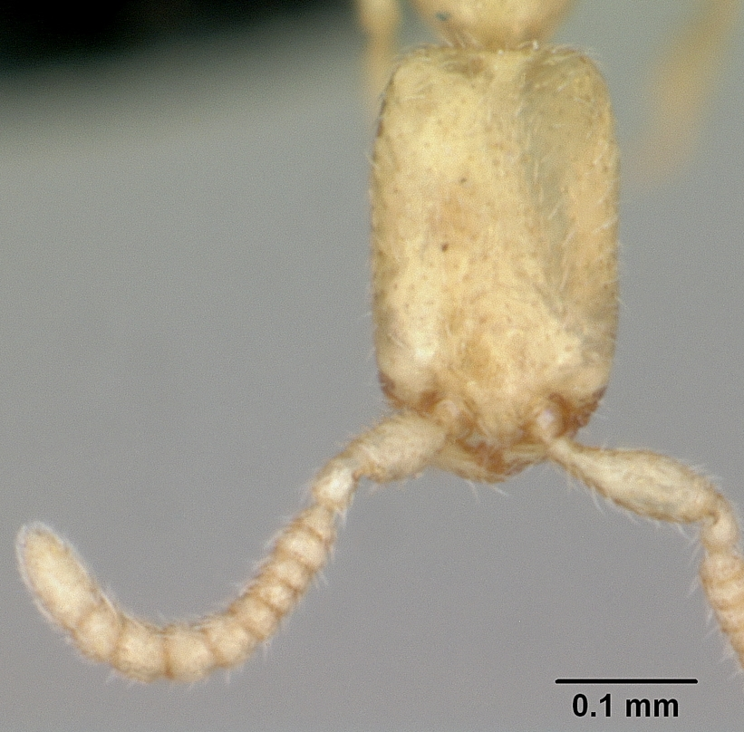 Head view of ant Leptanilla revelierii specimen casent0006788.